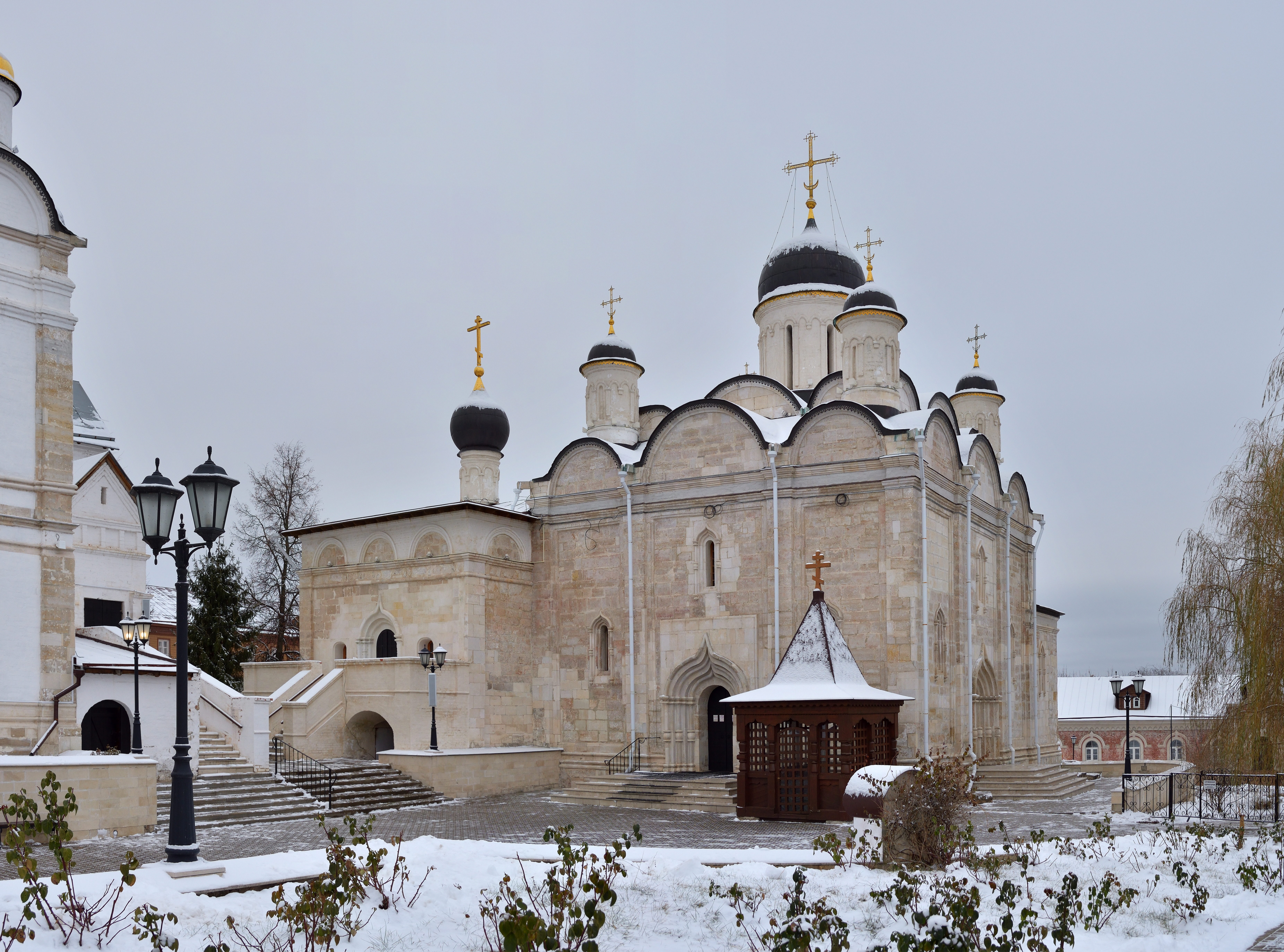 Presentation Cathedral, Vladychny Monastery, Serpukhov, Moscow oblast, Russia